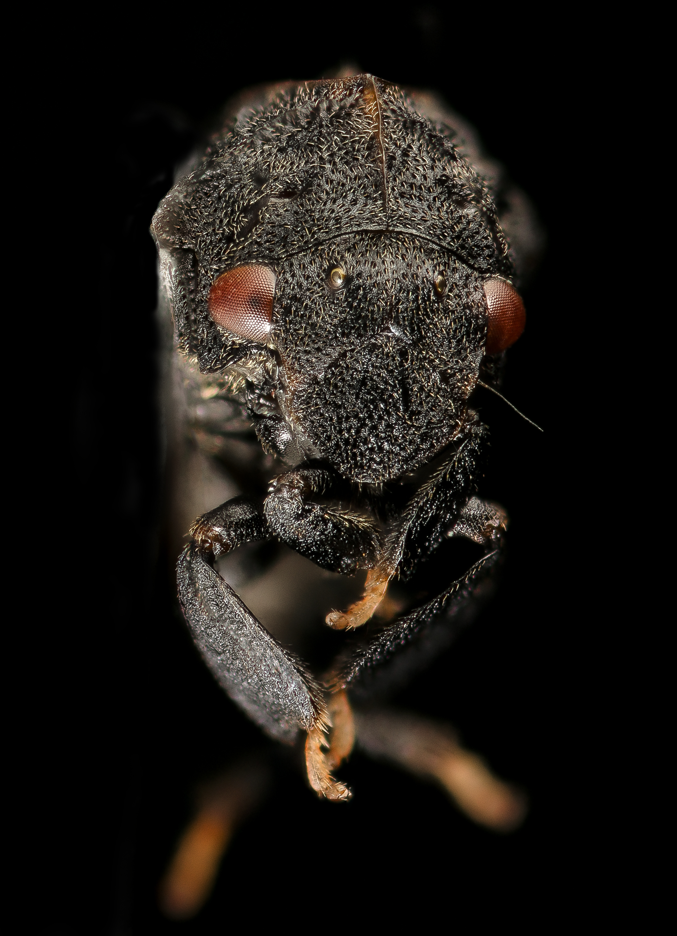 Tylopelta gibbera, a wee, brown, spec-like, treehopper. This species runs from Central America north where it quietly sips sap from the tick-trefoil plant group. These specimens came from the Sarah Kocher lab at Princeton, where they were imprisoned in small net cages in greenhouses while Sarah and her white-coated lab staff use lasers to listen in on treehopper sex talk; where competing males shout to females by drumming on the plants making tiny vibes that, if played correctly, are aphrodesial to any female in the area. They are using the treehopper's molecules to deconstruct why, where, and how these sexy vibrations vary across the landscape. Who knew. Both 10x and 5x shots involved. 04:20, 21 November 2016 (UTC)04:20, 21 November 2016 (UTC) 0 04:20, 21 November 2016 (UTC)04:20, 21 November 2016 (UTC) All photographs are public domain, feel free to download and use as you wish. Photography Information: Canon Mark II 5D, Zerene Stacker, Stackshot Sled, 65mm Canon MP-E 1-5X macro lens, and 10x Nikon microscope lens, Twin Macro Flash in Styrofoam Cooler, F5.0, ISO 100, Shutter Speed 200 Beauty is truth, truth beauty - that is all Ye know on earth and all ye need to know " Ode on a Grecian Urn" John Keats You can also follow us on Instagram - account = USGSBIML Want some Useful Links to the Techniques We Use? Well now here you go Citizen: Art Photo Book: Bees: An Up-Close Look at Pollinators Around the World Basic USGSBIML set up: USGSBIML Photoshopping Technique: Note that we now have added using the burn tool at 50% opacity set to shadows to clean up the halos that bleed into the black background from "hot" color sections of the picture. PDF of Basic USGSBIML Photography Set Up: ftp://ftpext.usgs.gov/pub/er/md/laurel/Droege/How%20to%20Take%20MacroPhotographs%20of%20Insects%20BIML%20Lab2.pdf Google Hangout Demonstration of Techniques: or Excellent Technical Form on Stacking: Contact information: Sam Droege 301 497 5840